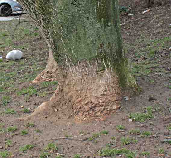 plant damage due dog urination, Brno Komín, Juglans regia